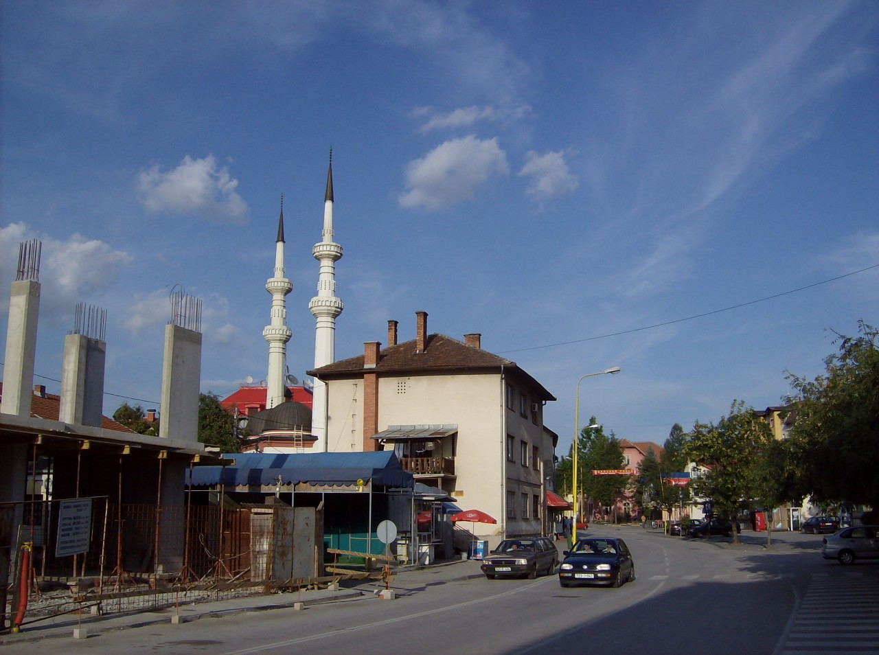 Žepče